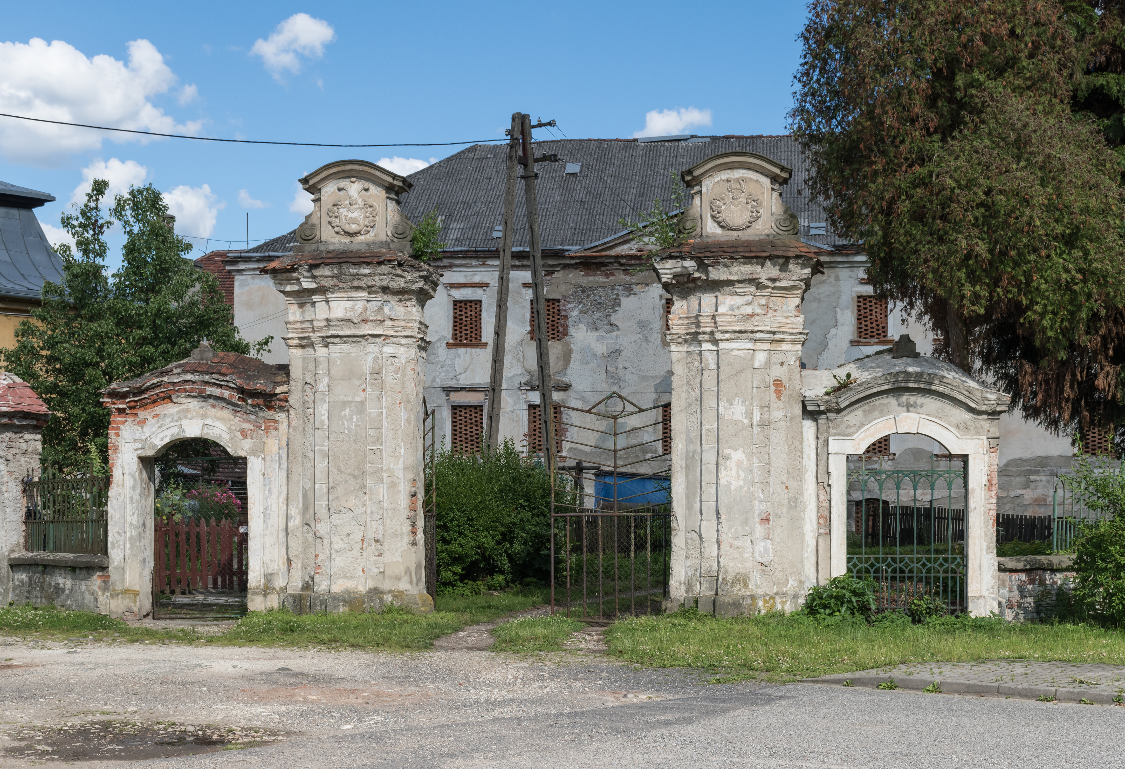 Magnis palace in Ołdrzychowice Kłodzkie, gate